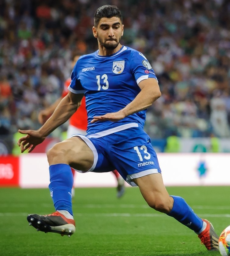 Ioannis Kousoulos with Cyprus national team in an Euro 2020 qualifier against Russia in Nizhny Novgorod, Russia.